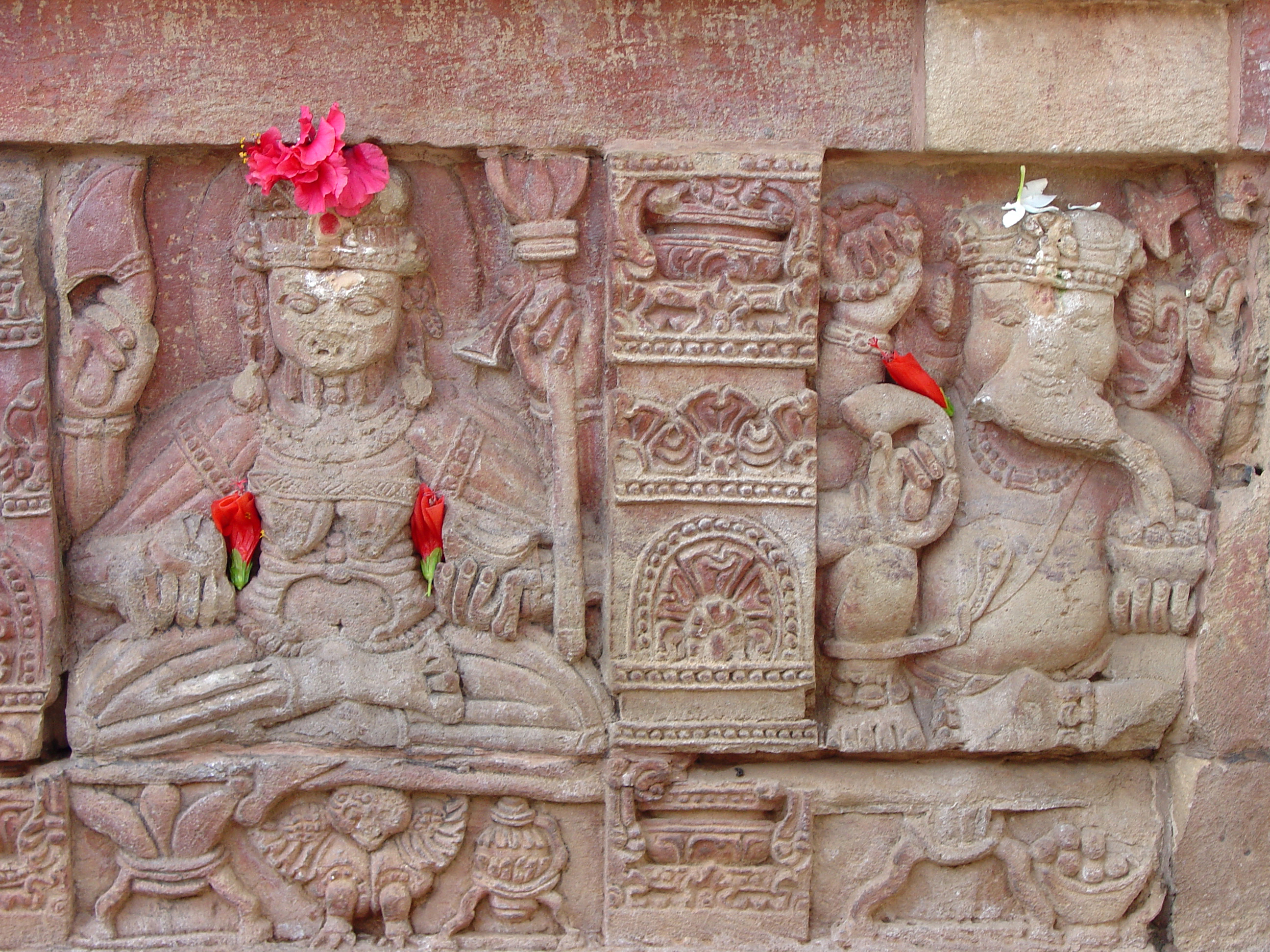 Ganesh, or perhaps Ganeshvari (r.), and Chamunda (l.). North wall of the jagamohan. Parashurameshvara Temple, Bhubaneshwar.